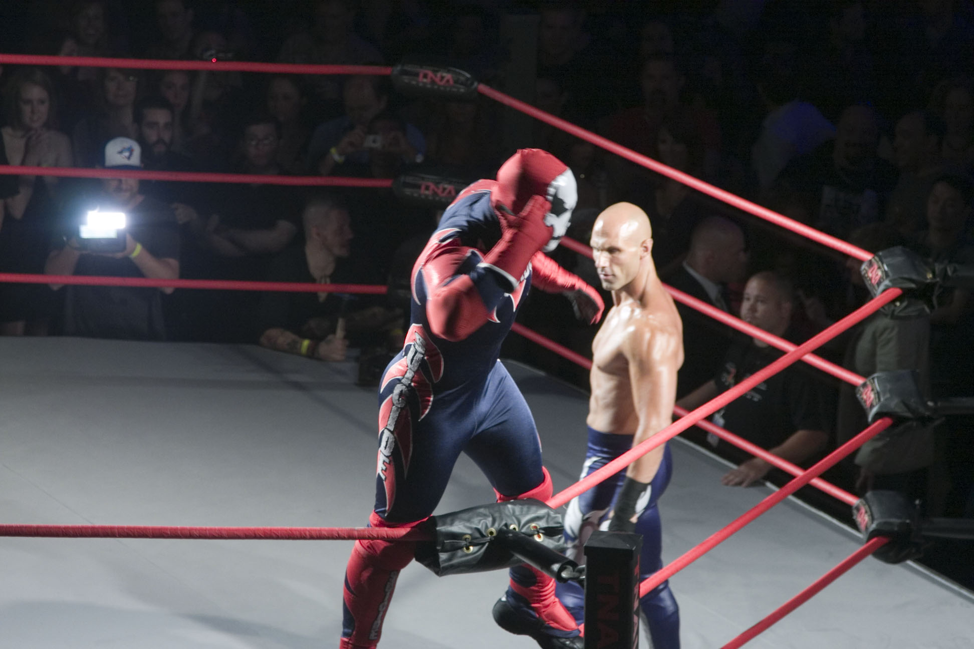 TNA Wrestler Suicide